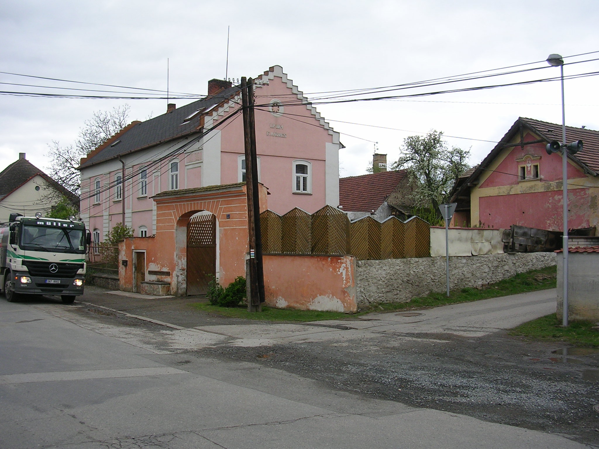 Jíloviště, Central Bohemian Region, the Czech Republic.